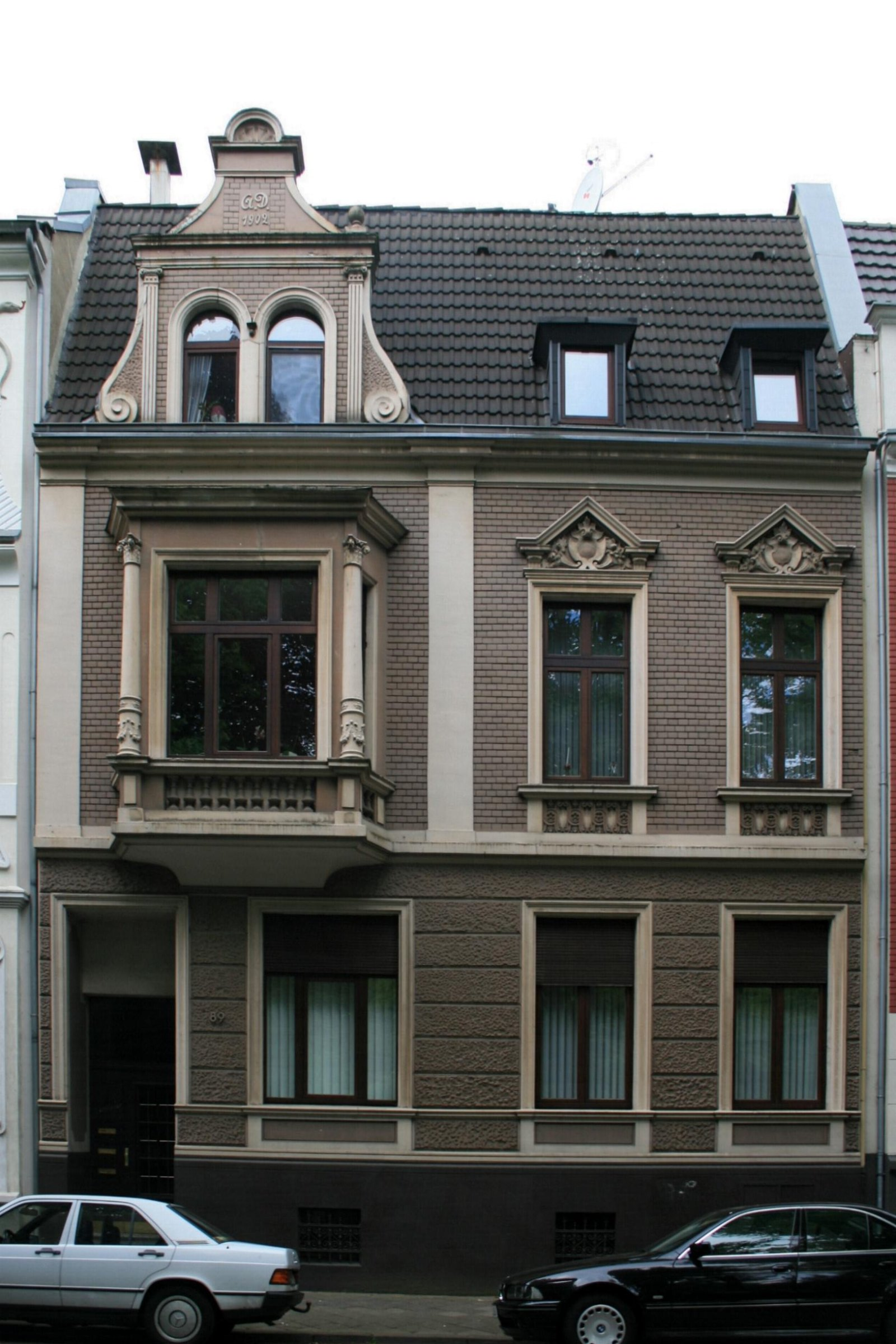 Cultural heritage monument No. B 013 in Mönchengladbach